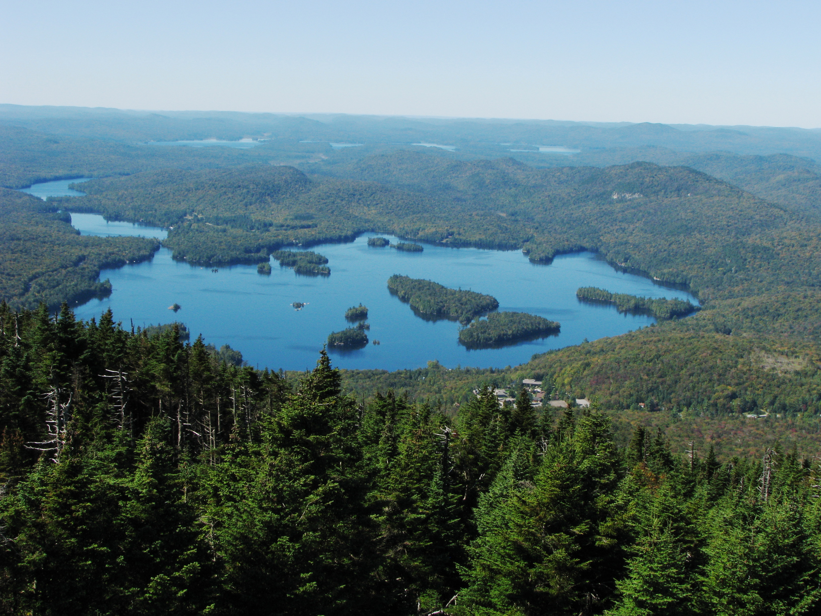 Taken by Marc Wanner. Blue Mountain Lake from Blue Mountain in the Adirondacks of New York, 9/17/2013. The Eckford Chain of Lakes is at upper left.